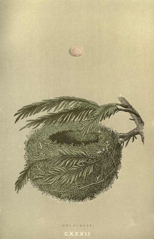 Illustration of a Goldcrests' nest and an egg. From A Natural History of the Nests and Eggs of British Birds. (1896) Volume 2. plate 132. by Francis Orpen Morris.